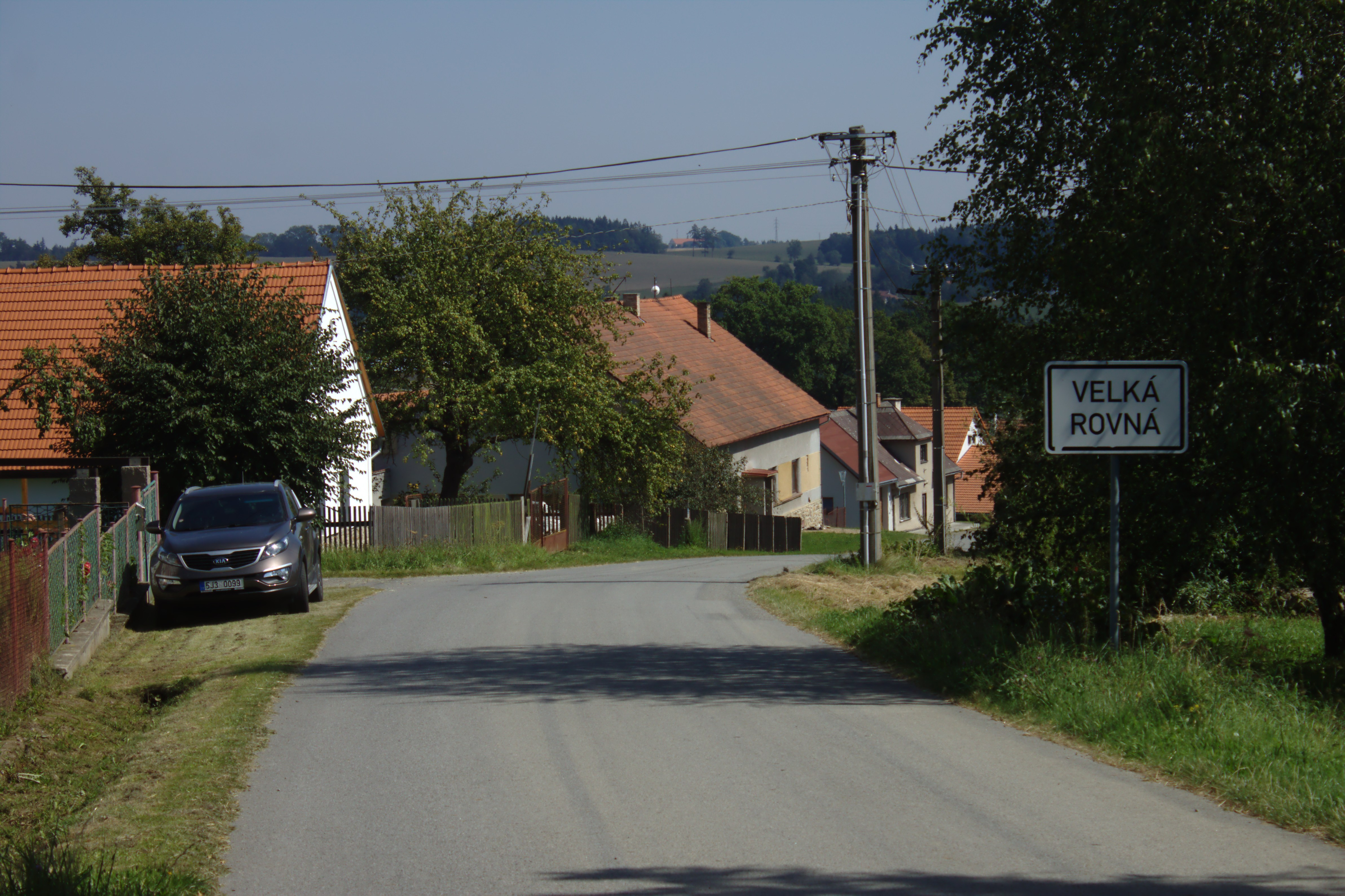 Main road with the town limit of Velká Rovná, Vysočina Region, CZ